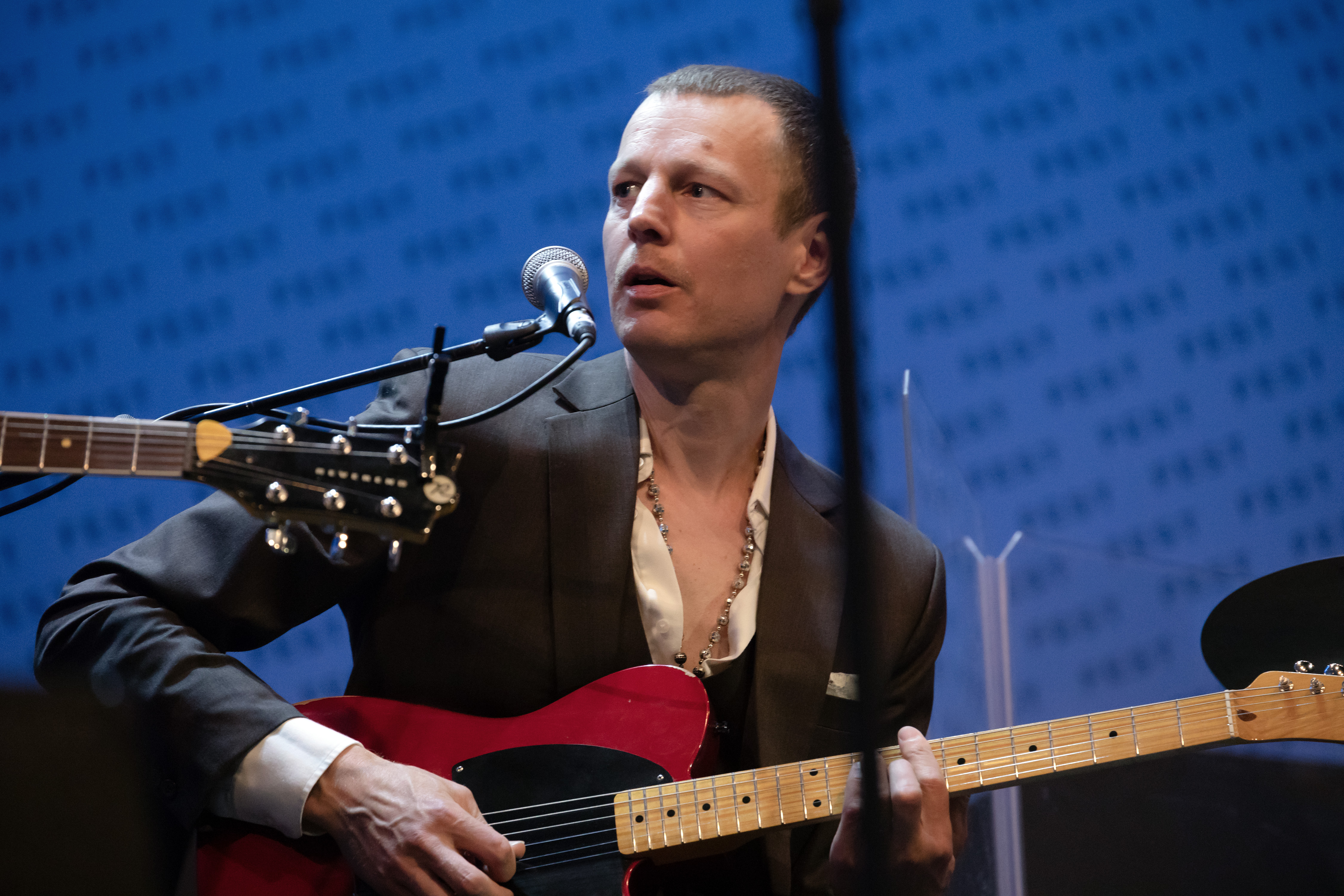 Hannes Wirth at the opening evening of the Vienna Festival 2018 (Rathausplatz, Vienna, Austria).